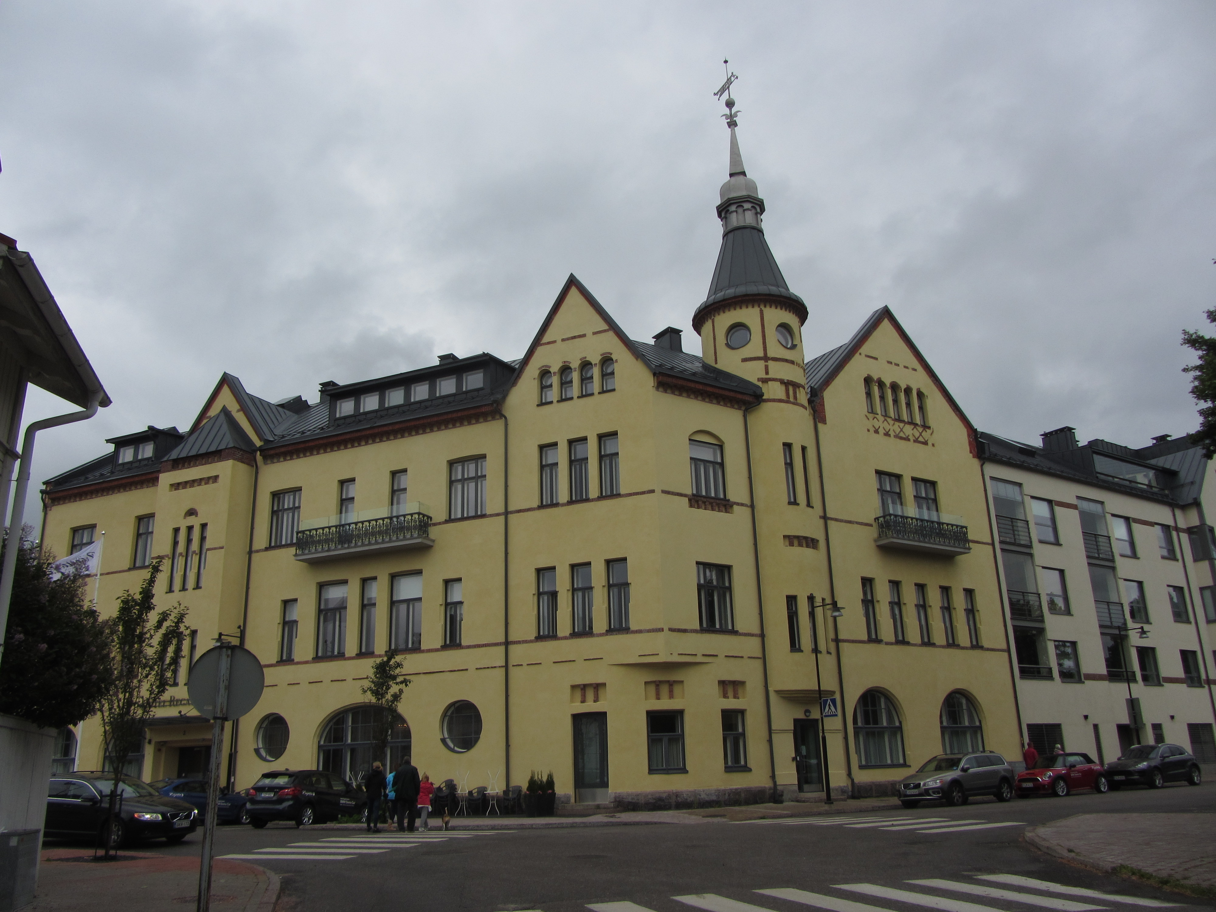 Hotel Regatta in Hanko, Finland.